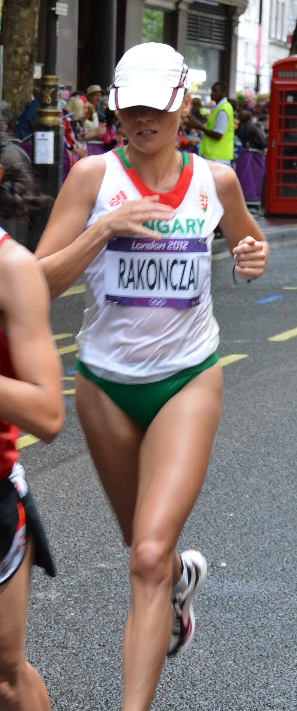 Beata Rakonczai (Hungary) in the marathon (w) at the Olympic Games 2012